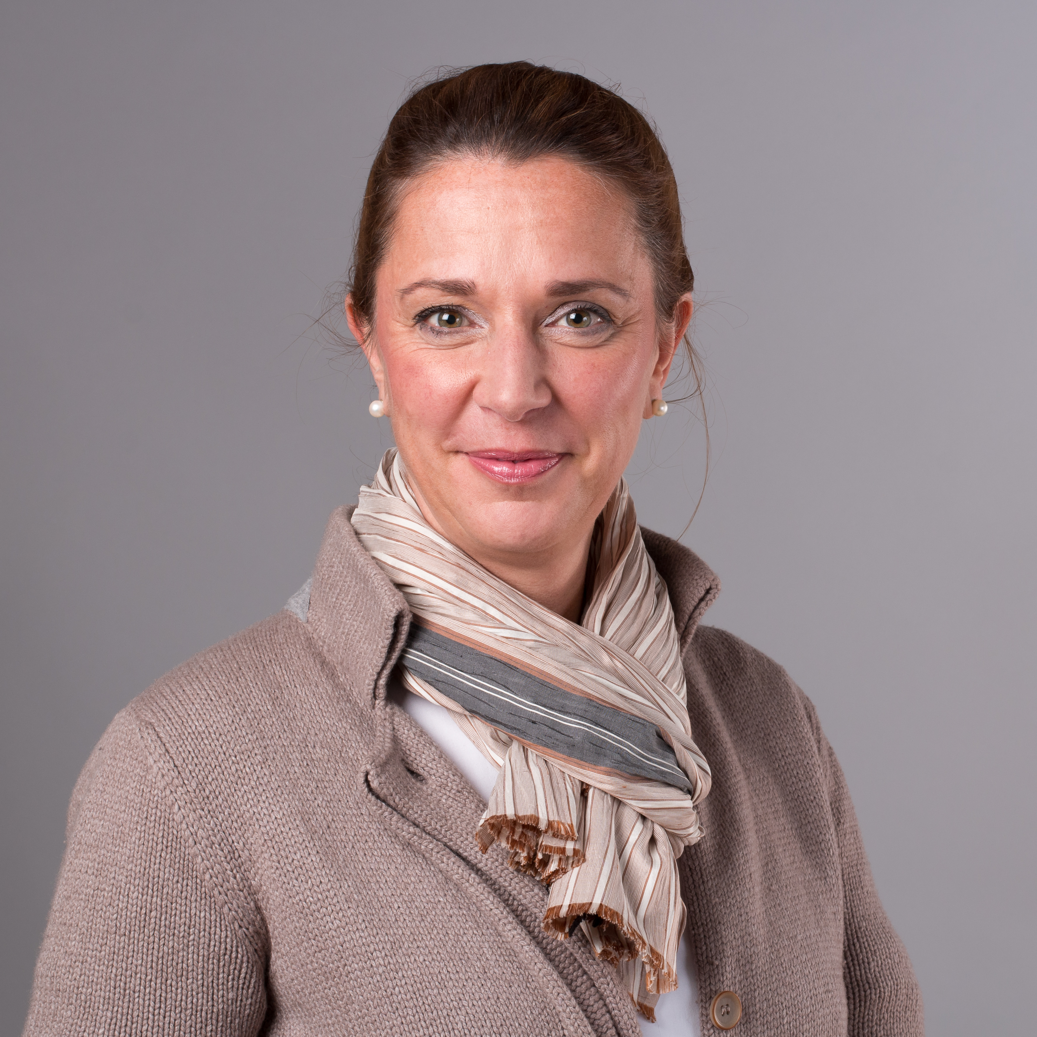 Yvonne Gebauer, North Rhine-Westphalian FPD-politician and member of the Landtag of North Rhine-Westphalia